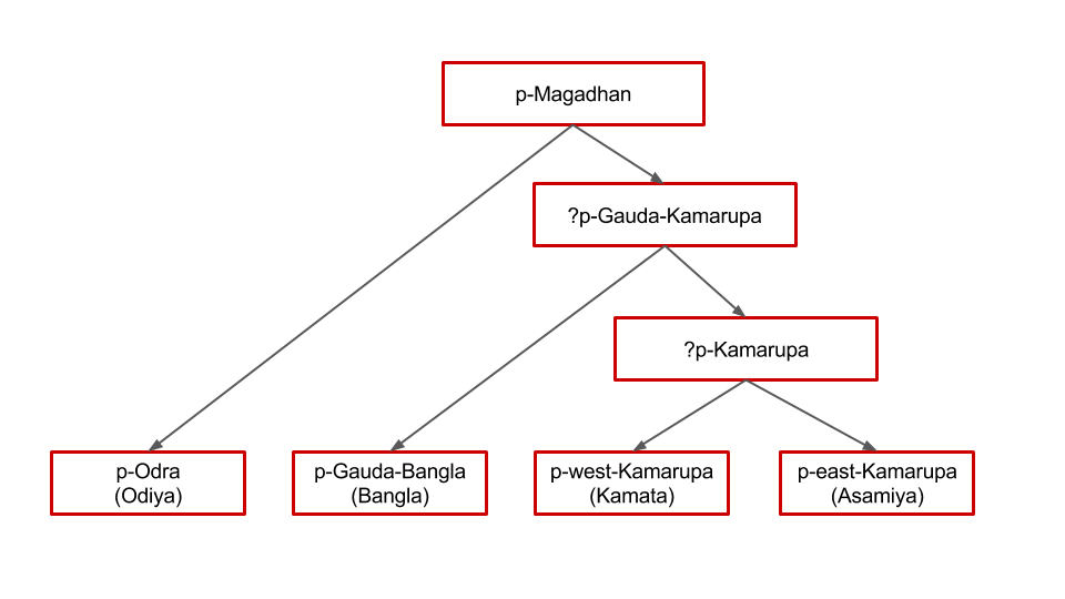 The proto-languages of the eastern Magadhan languages.